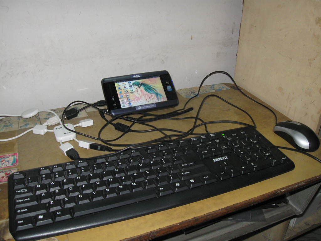 BenQ MID S6 connected with other devices.